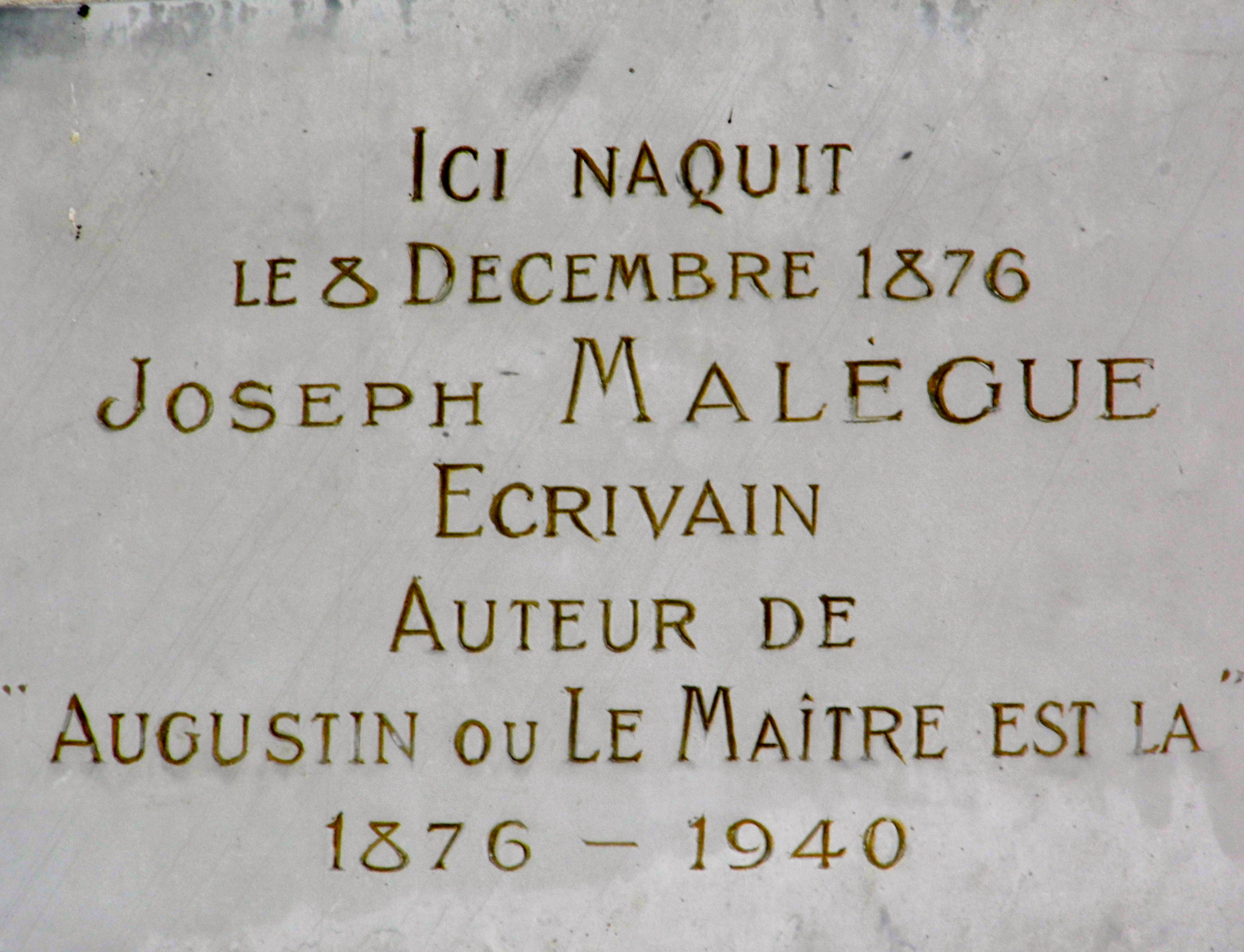 Commemorative plate on the house where Joseph Malègue was born